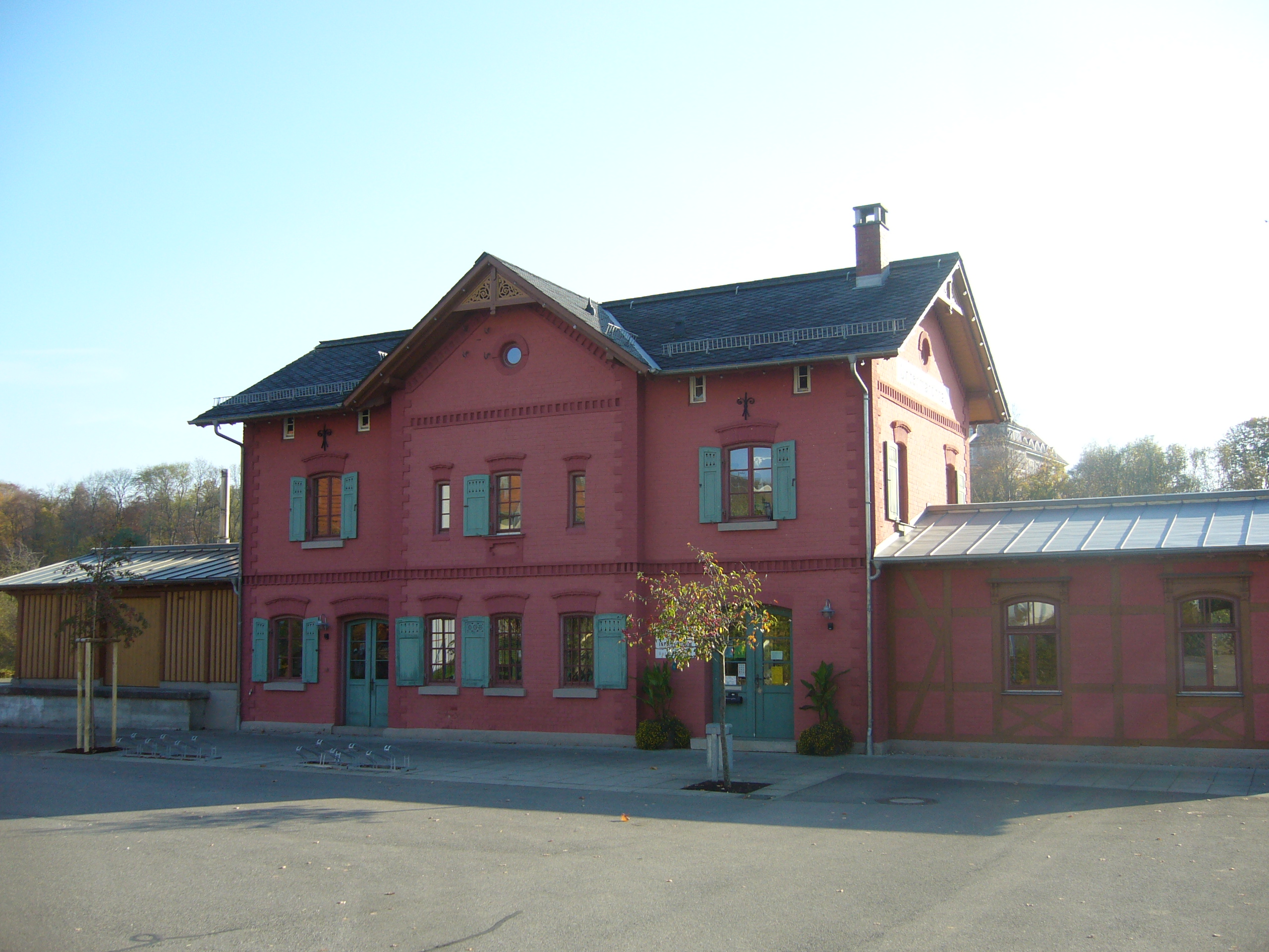 train station of Untermarchtal, Germany